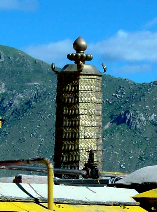 Dhvaja (Victory banner), Roof of Potala Palace, Tibet. Author and photography: Kosi Gramatikoff (Tibet 2005)